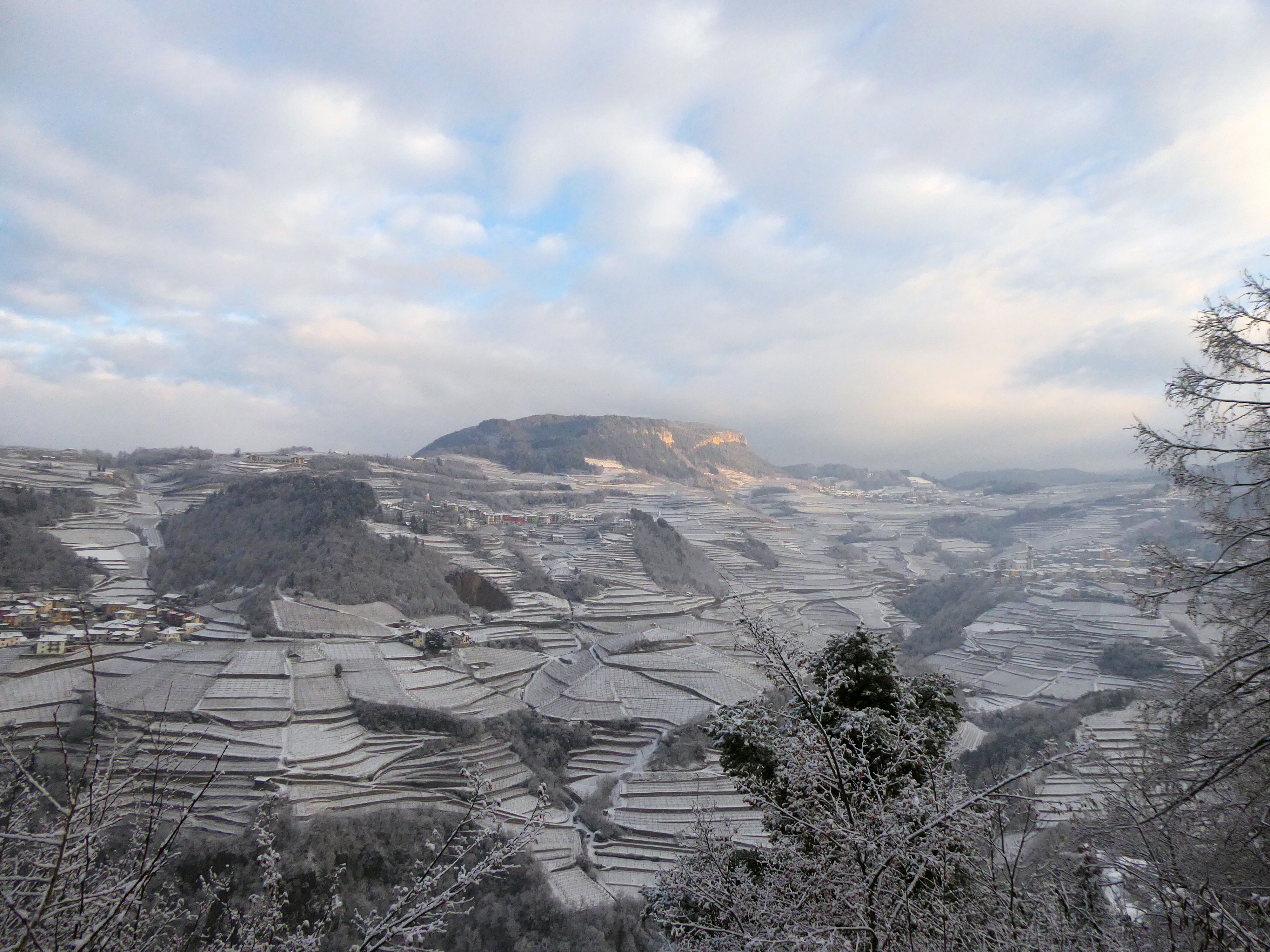 The municipality of Giovo (Trentino, Italy) in winter